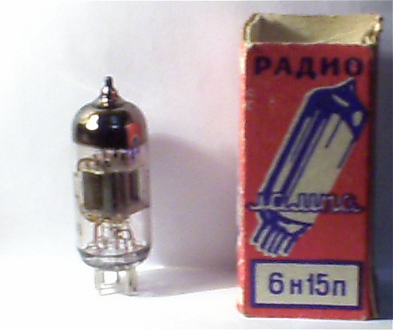 Russian Dual Triode 6N15P (6Н15П)